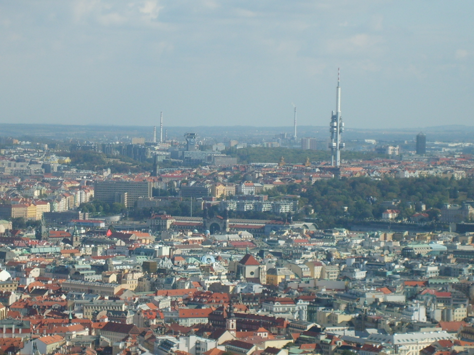 New town of Prague, Main railway station and Žižkov tower view from Petřín outlook-tower.